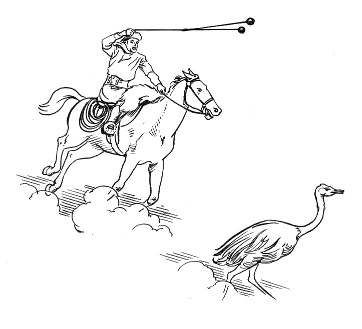 line art drawing